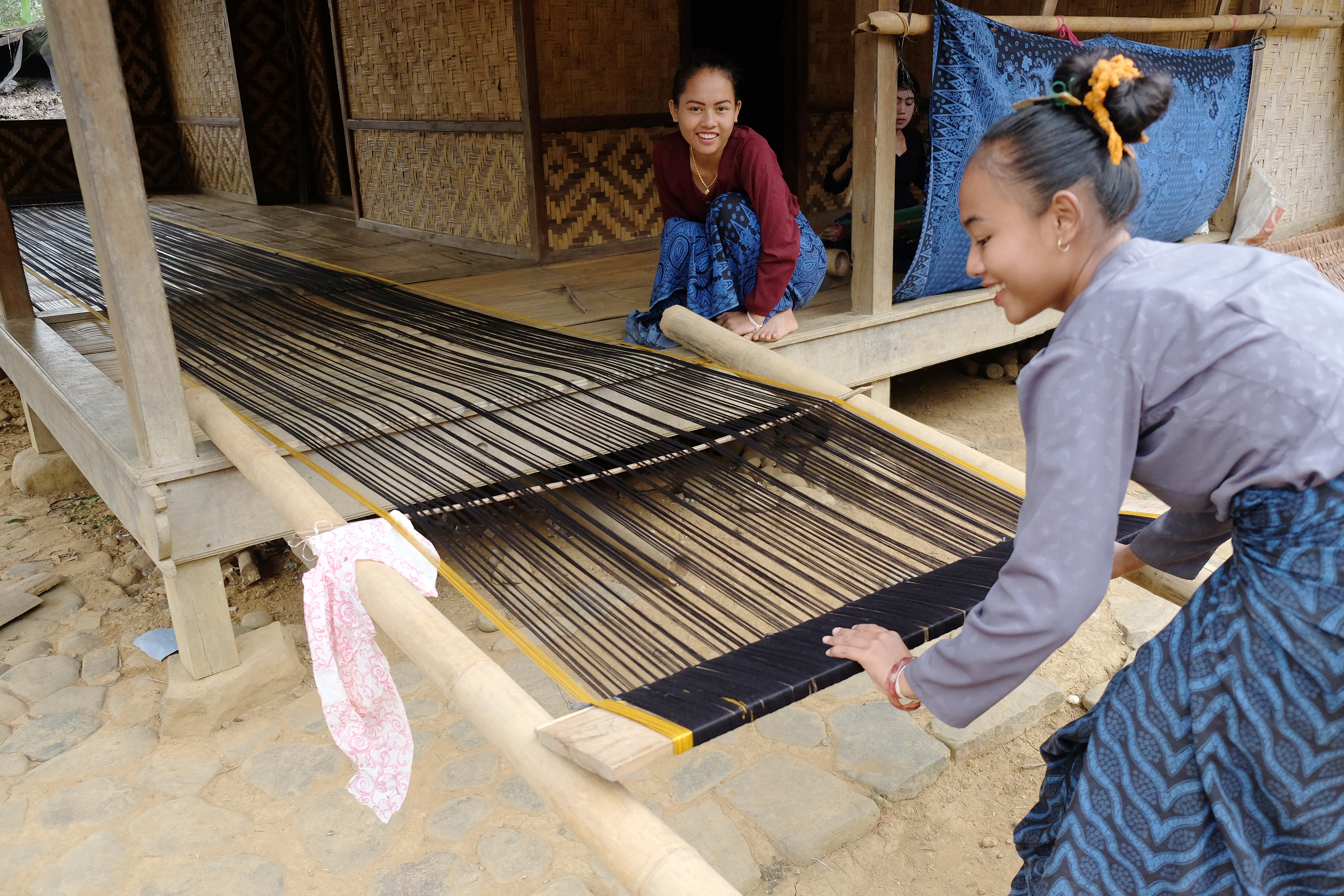 Baduy people tribeswoman making clothes.